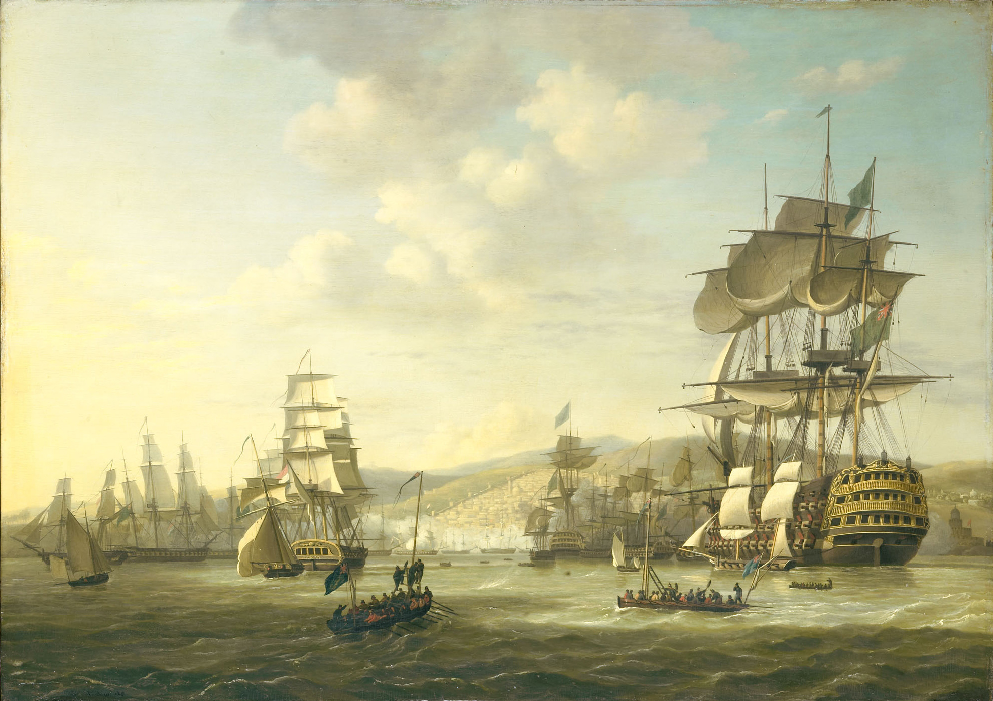 Anglo-Dutch fleet in the bay of Algiers as support for the ultimatum demanding the release of white slaves on august 26, 1816.